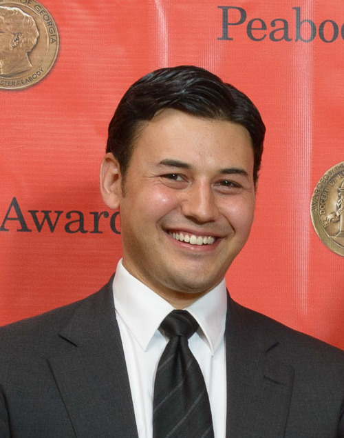 Linda Lutton, Ben Calhoun, Julie Snyder, Robyn Semien and Alex Kotlowitz at the 73rd Annual Peabody Awards.